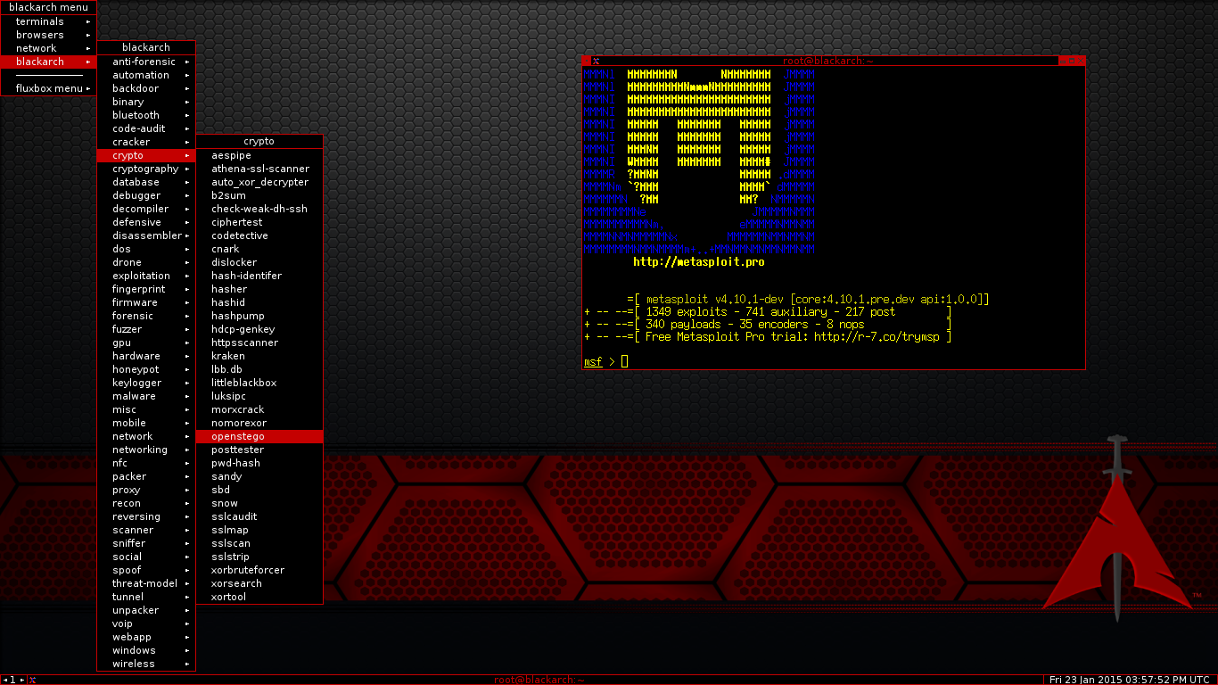 Black Arch desktop